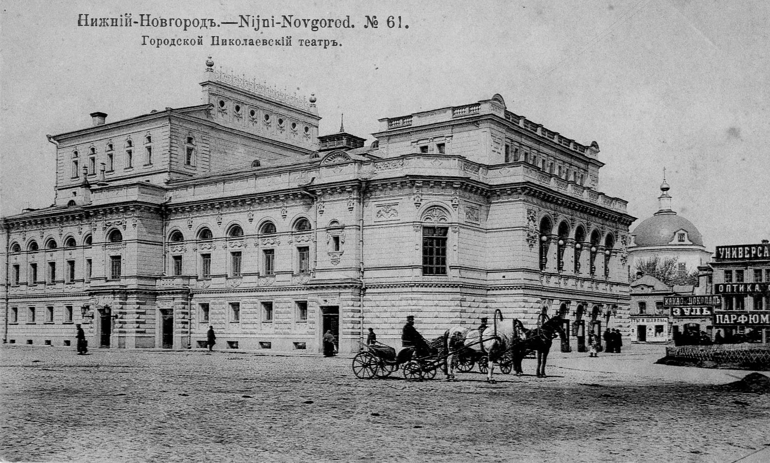 Nikolaevsky Theatre in Nyzhny Novgorod